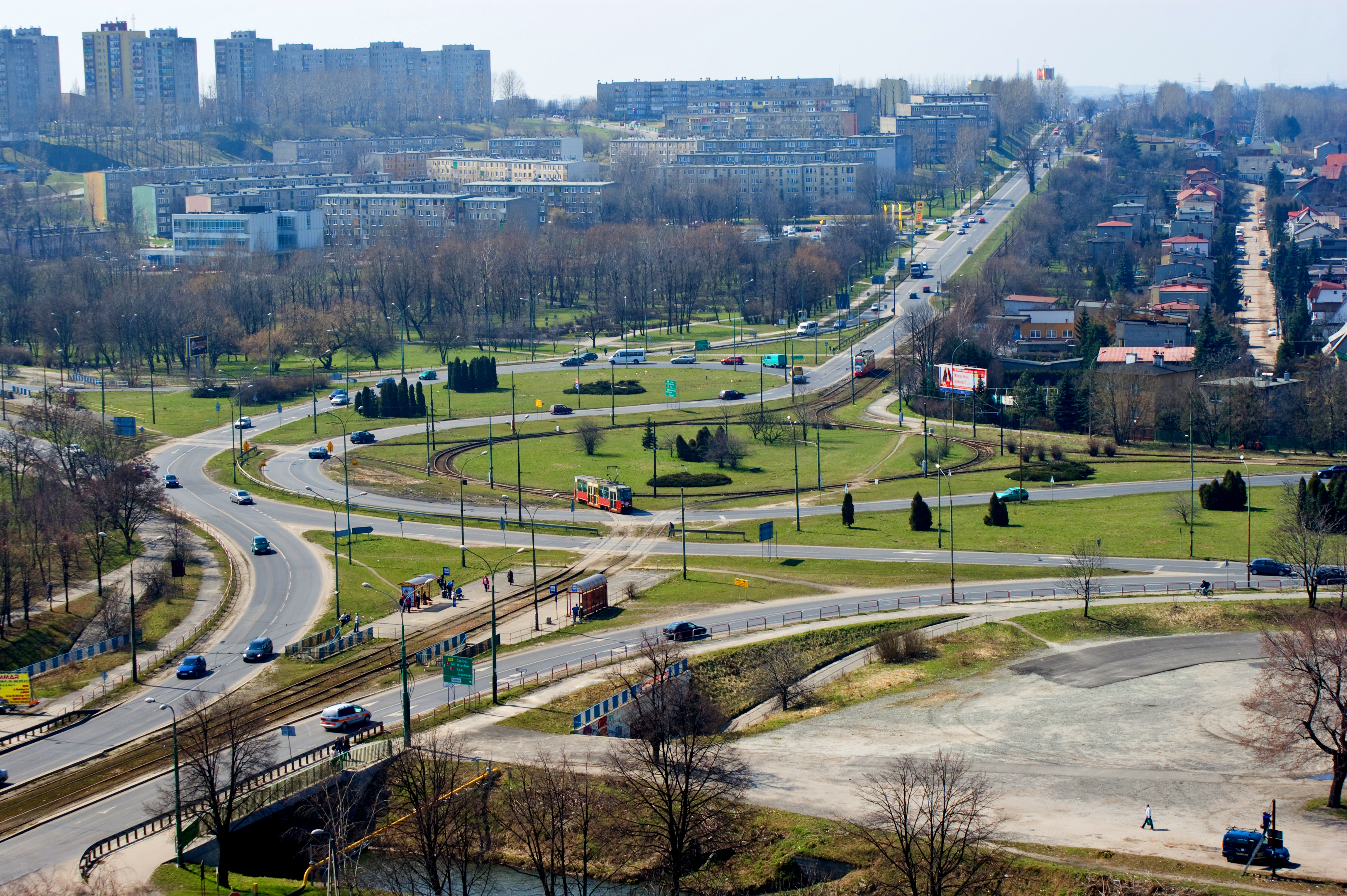 Roundabout in Będzin.